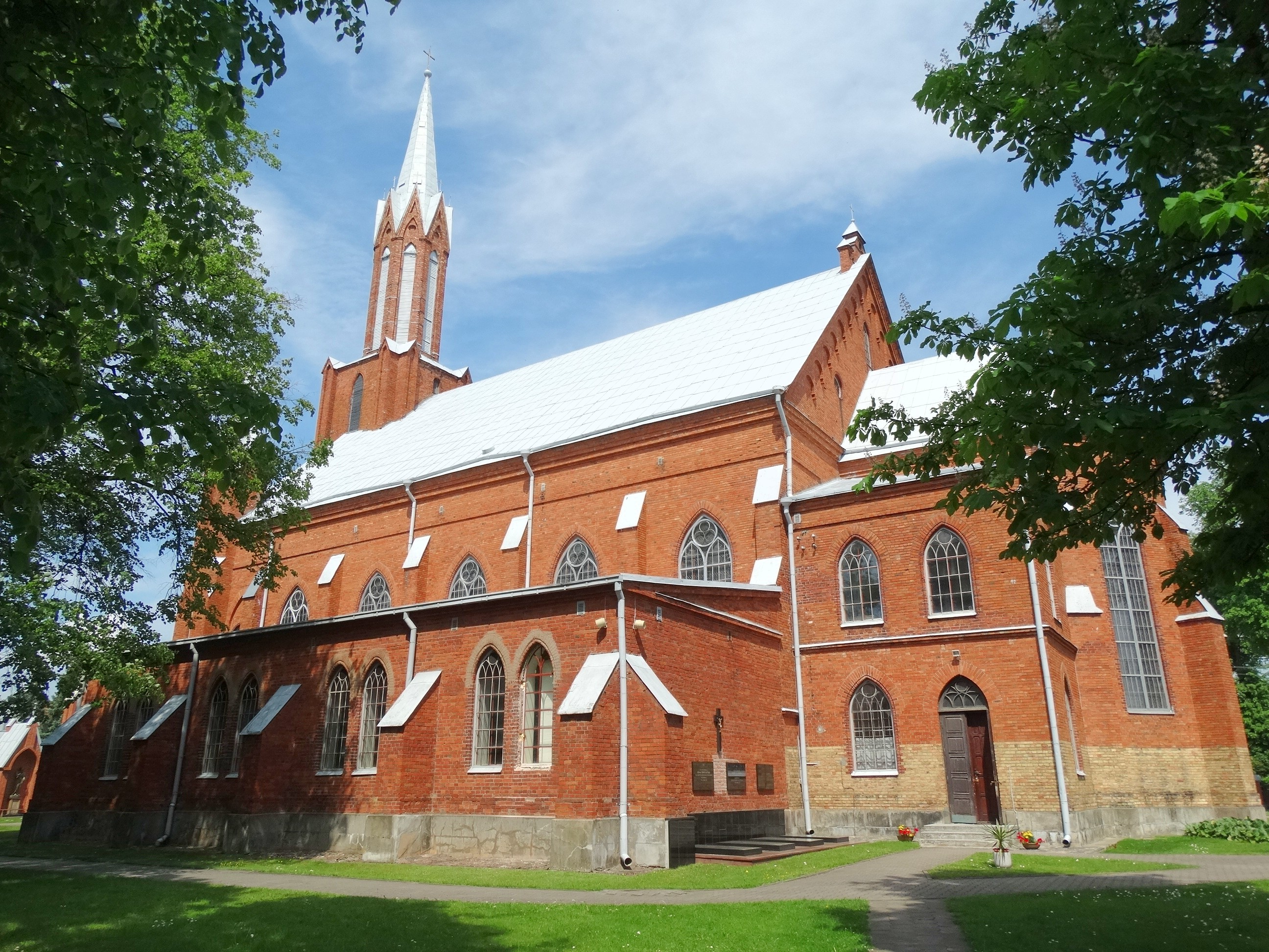 Cathedral, Kaišiadorys, Lithuania